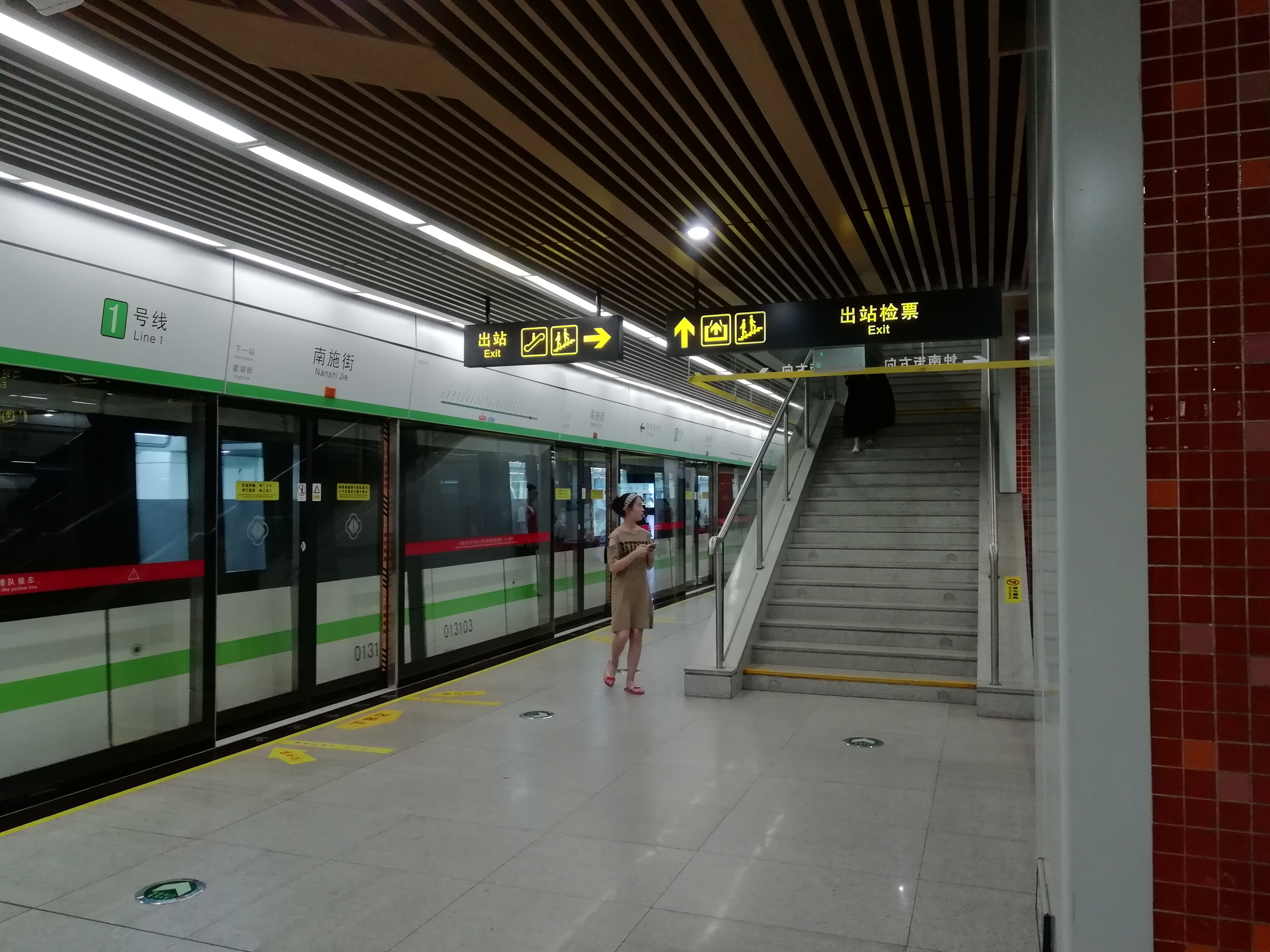 Platform of Nanshi Jie Station 中文（中国大陆）: 南施街站站台